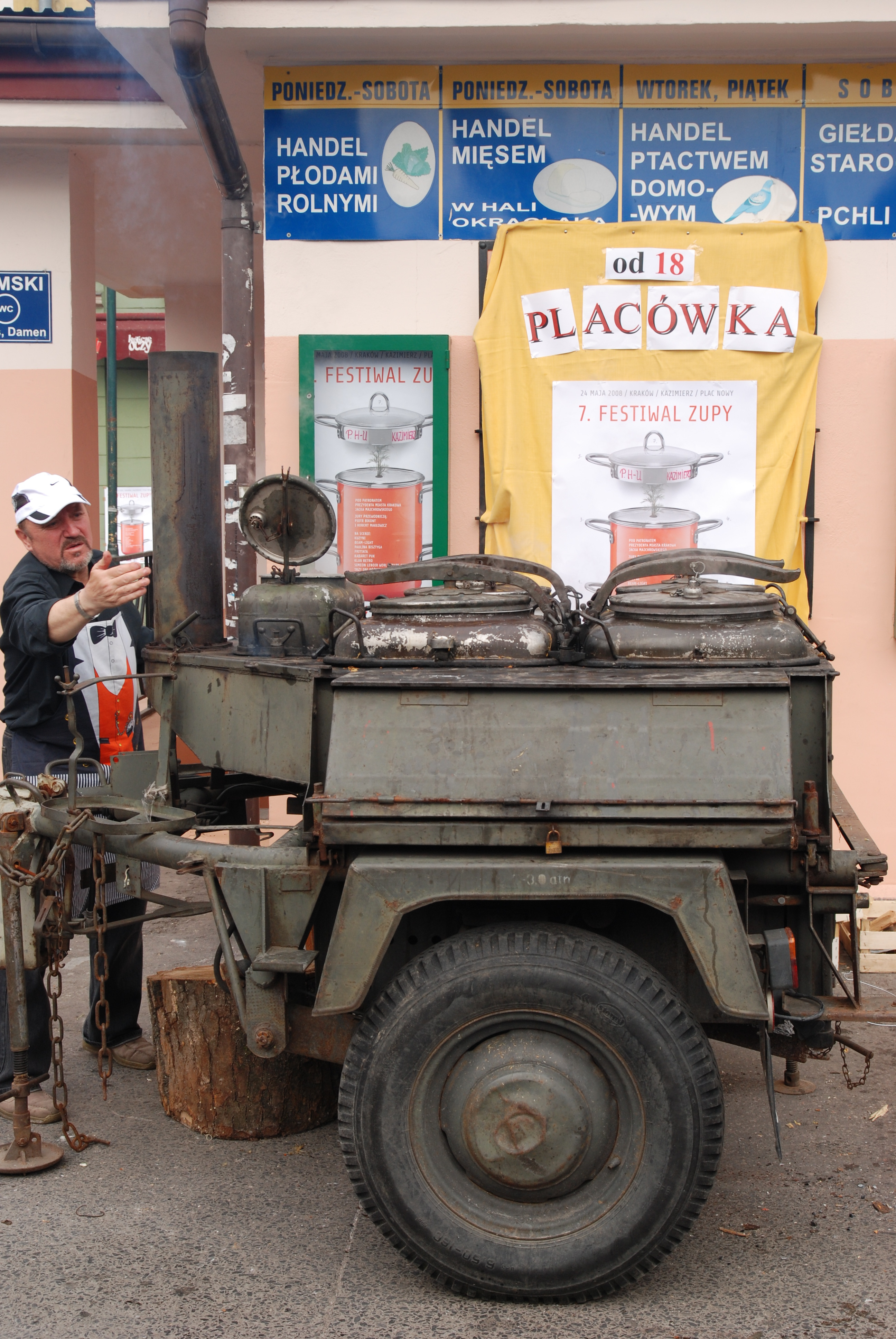 A KP-340 field kitchen at the Soup Festival in Kraków